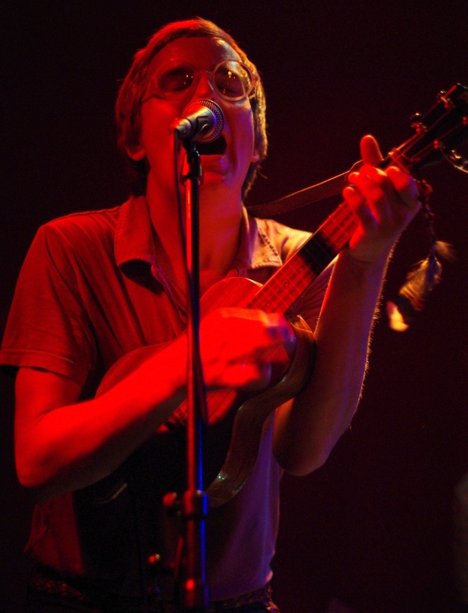 Musician Dent May performing at Bang Bang Club in Berlin, Germany on September 2nd, 2009.